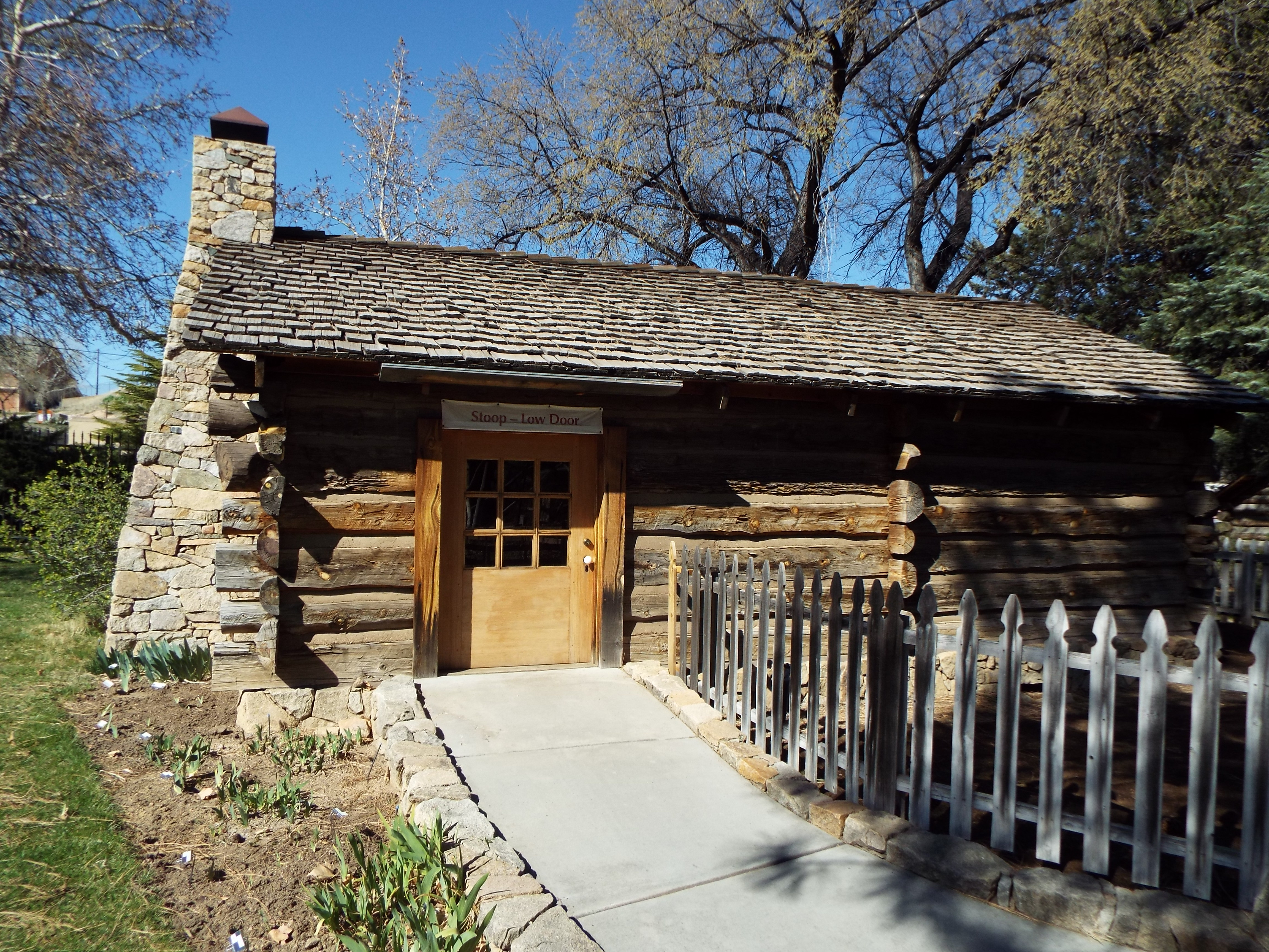 Fort Misery is believed to be the first building built in Prescott, constructed in late 1863 and early 1864 by Manuel Yrissari, a trader from New Mexico and used as a store. This cabin was: 1. The first law office in Arizona 2. The first general store in Central Arizona. 3. The first protestant worship house in Central Arizona. 4. The first boarding house in Central Arizona. 5. The first courthouse in Arizona.